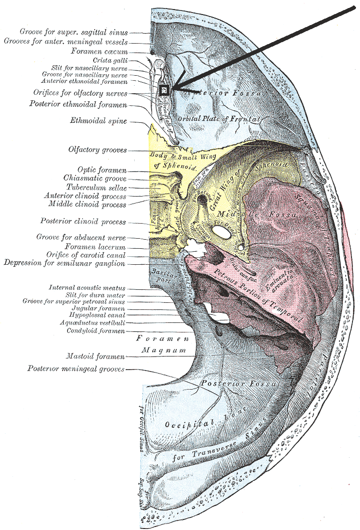 Base of the skull. Inner or cerebral surface.